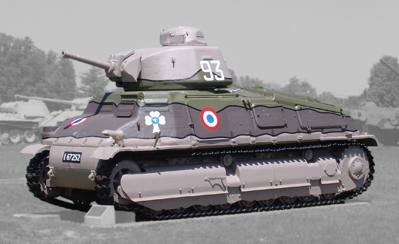 SOMUA S-35 on display at the US Army Ordnance Museum in Aberdeen. The picture taken May 7, 2007.